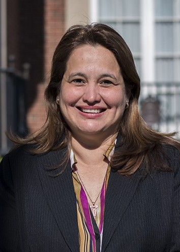 Julissa Villanueva derived from